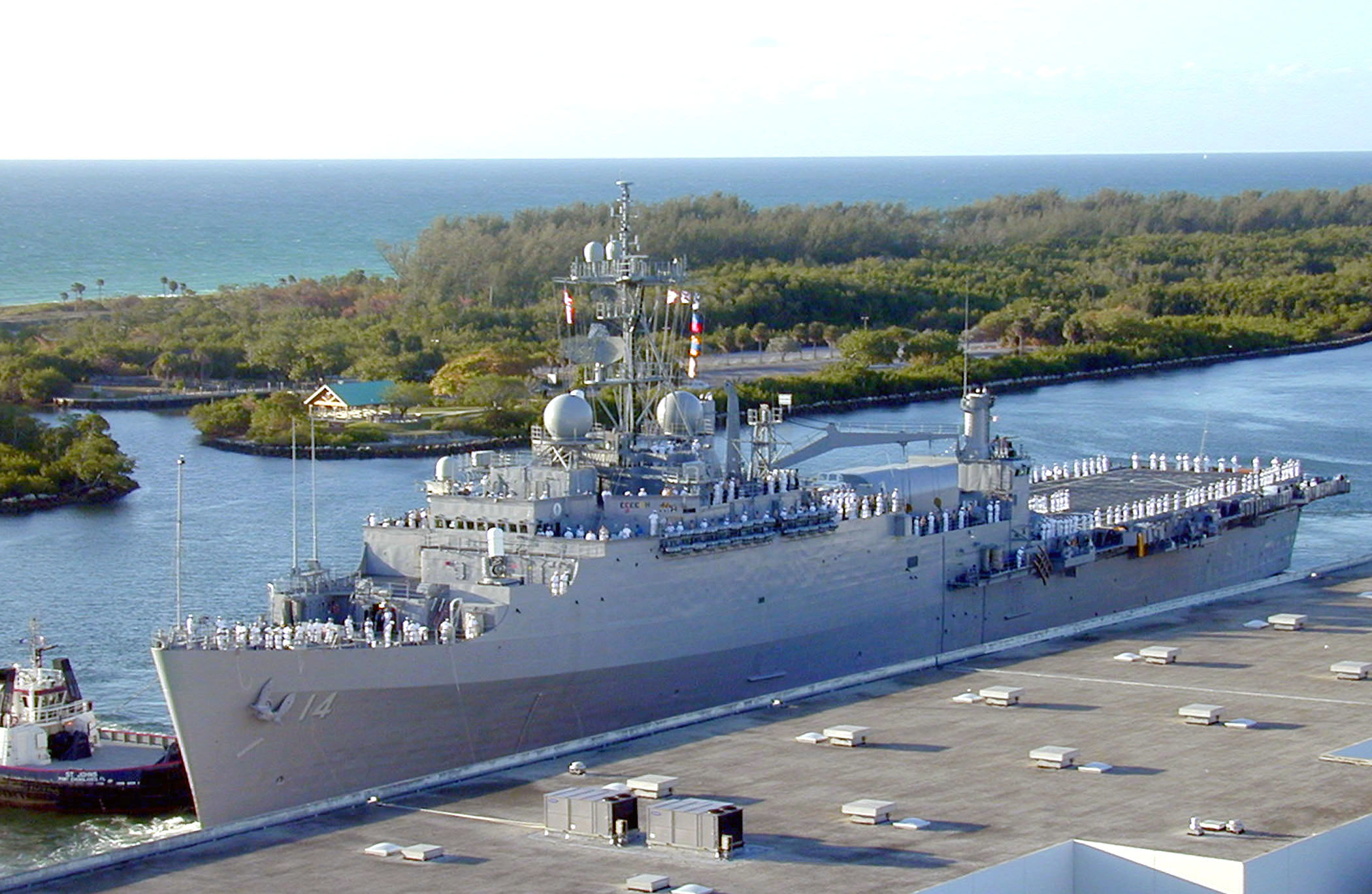 Port Everglades, Fla. (Apr. 26, 2004) - The crew assigned to the amphibious transport dock ship USS Trenton (LPD 14) "man the rails" as a commercial tugboat pushes them closer to the pier as they prepare to moor in Port Everglades, Fla., for Fleet Week 2004. U.S. Navy photo by Journalist 2nd Class William Lovelady. (RELEASED)